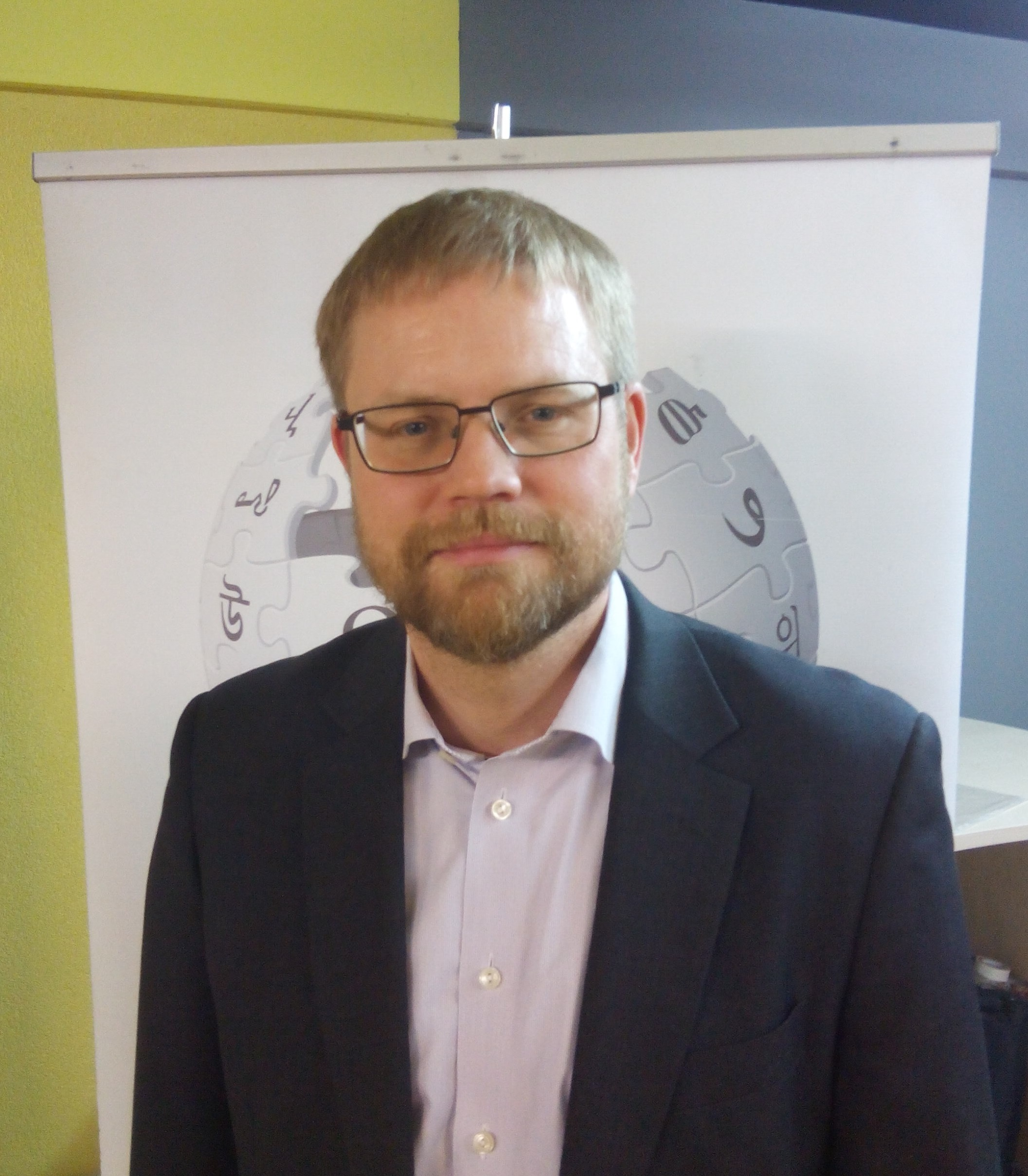 Martin Hagström, the Ambassador of Sweden to Ukraine (photograph was taken during the WikiGap 2018 event in Mediacenter DFJ in Kyiv, Ukraine)